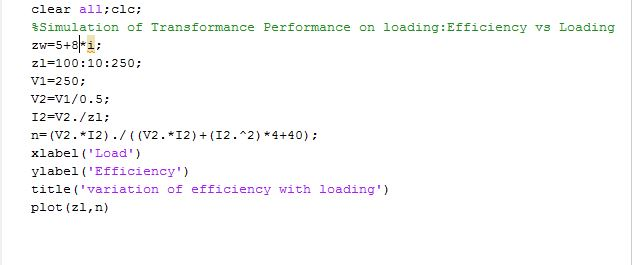 MATLAB code for transformer performance